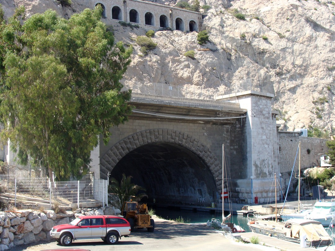 The termination of the Canal de Marseille via the southern portal for the Rove Tunnel at Corbière, on the coast between the Corbière nautic base and Port de la Lave, in the quarter Les Riaux to the north-west of Marseille, in the 16th arrondissement. The canal portal is also a bridge over which passes the Route du Rove, running along the coast at the foot of mountain range of L'Estaque. Above again is an input gallery to another tunnel through the mountain, for the railway line going from l'Estaque to Miramas.